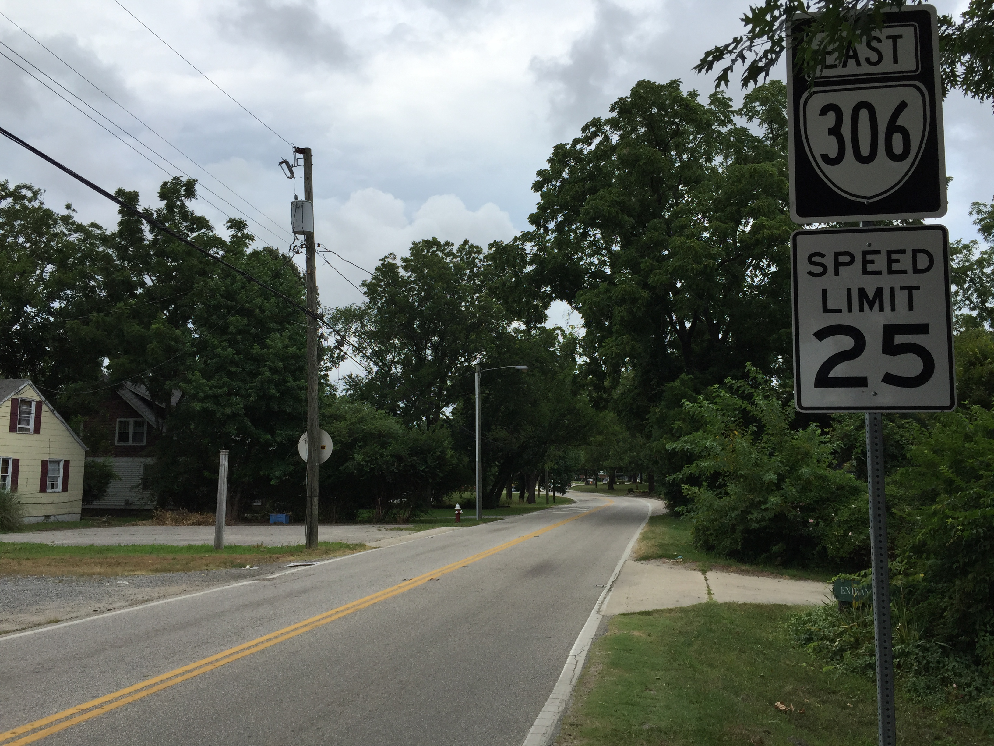 View east along Virginia State Route 306 (Harpersville Road) at Tyler Avenue in Newport News, Virginia